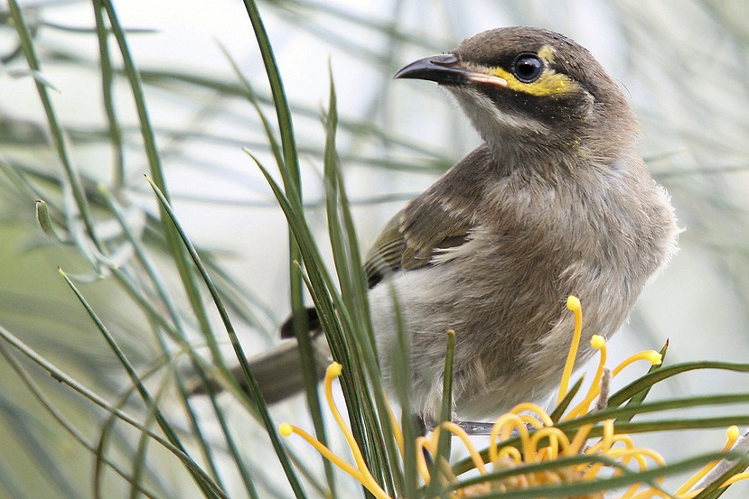 Yellow-faced Honeyeater, Lichenostomus chrysops, in a Grevillea